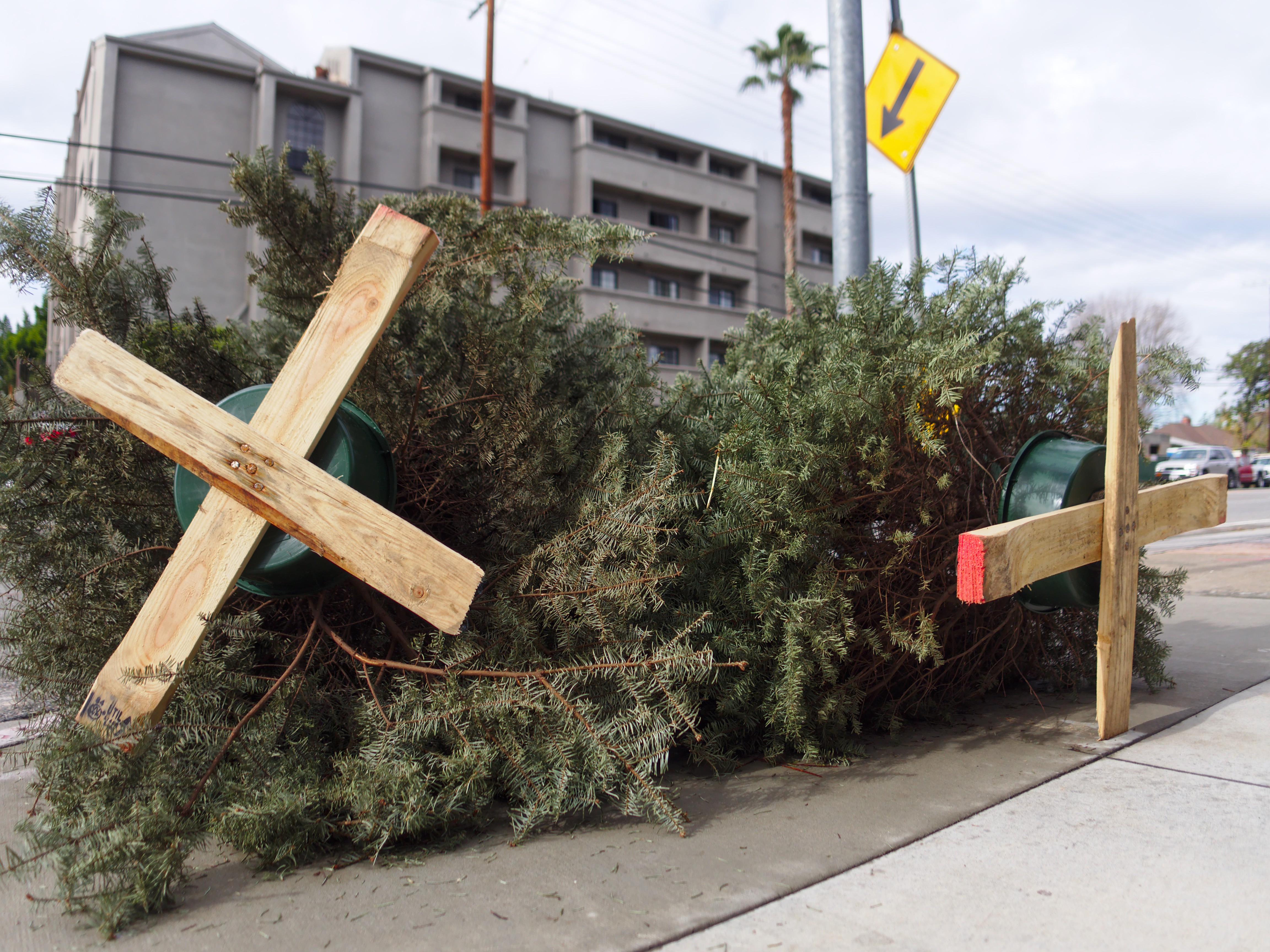 Discarded Christmas trees waiting curbside for pickup by the City of Los Angeles for conversion to mulch